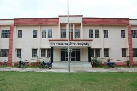 Sawai Madhopur District Court, Collectorate, Bazariya, Sawai Madhopur